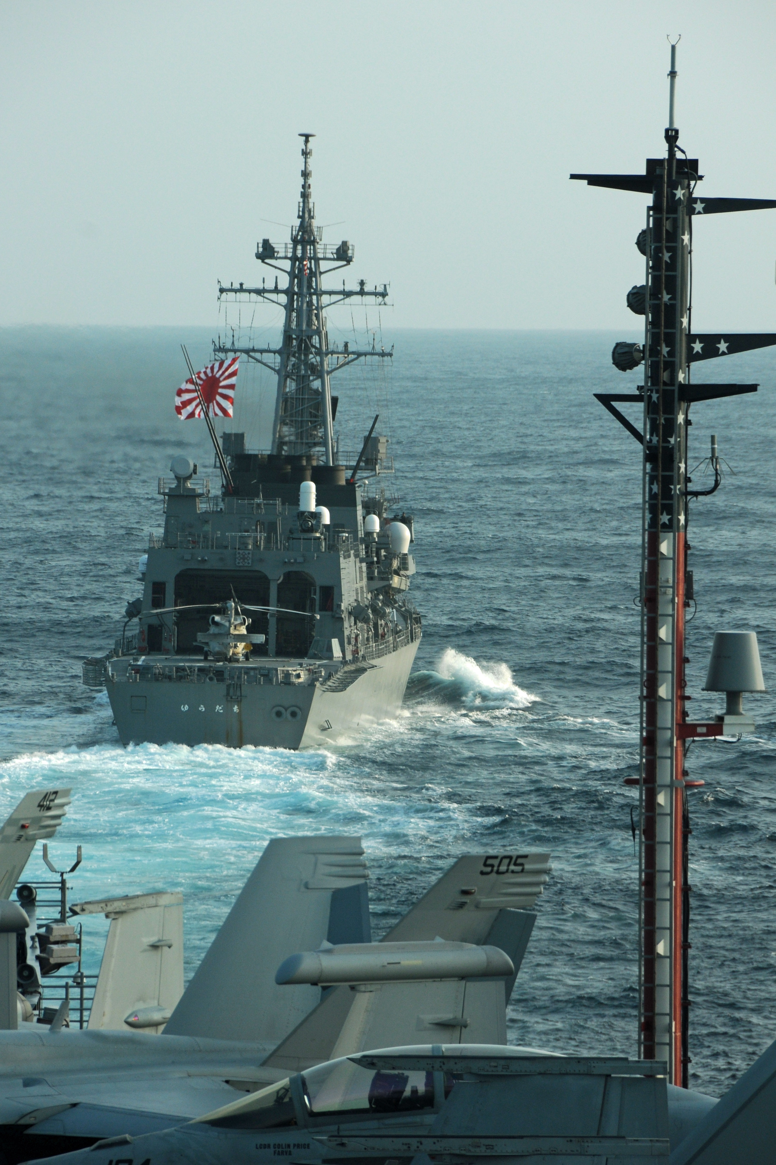 EAST CHINA SEA (Jun. 22, 2012) - The Japan Maritime Self-Defense Force destroyer JS Yūdachi (DD-103) is in front of the aircraft carrier USS George Washington (CVN-73) during a formation in the East China Sea. The Japan Maritime Self Defense Force and Republic of Korea Navy joined U.S. Navy ships in the East China Sea for a trilateral exercise. The exercise is designed to increase interoperability and readiness of all three navies. (US Navy photo by Lt. Cmdr. Denver Applehans/Released)